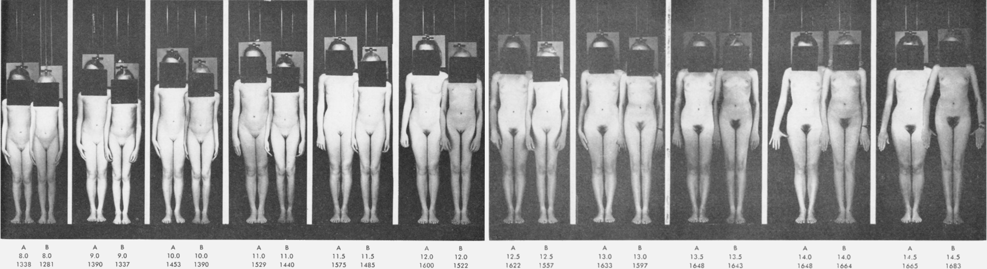 Comparison of the puberty of two girk, among which one with delayed puberty